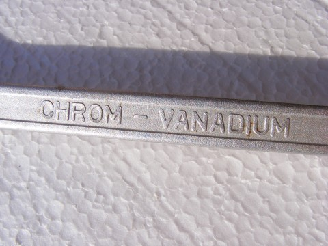 Free Photos – Stanley and Crom Vanadium Combination Wrench Set / for nuts and bolts More photos and details about possible copyright or licensing restrictions here: Full Size Up to 3072 x 2304 pixels Information Regarding Copyright